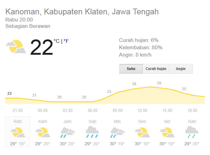 Kanoman